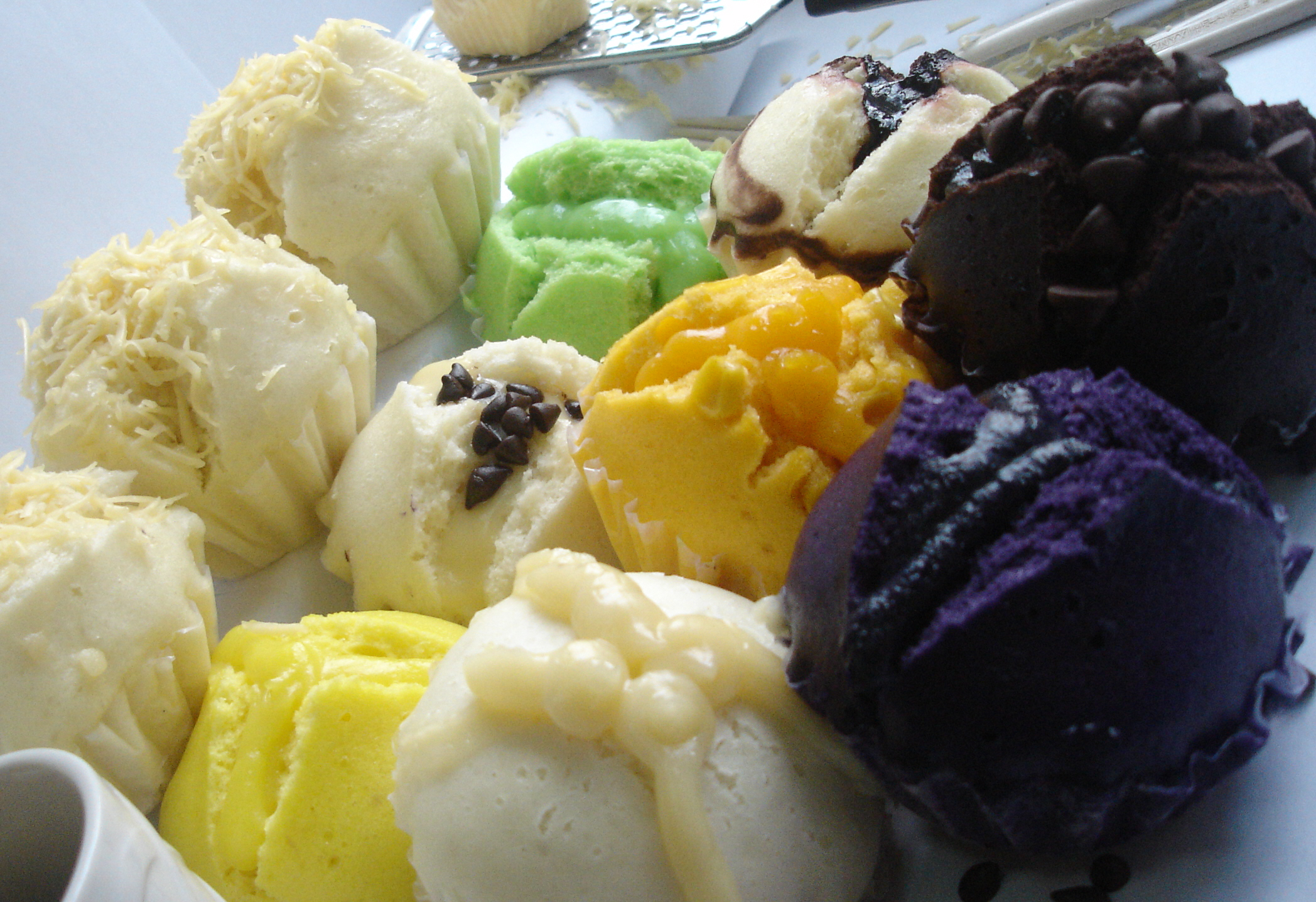 Assorted Putopops Special Puto products